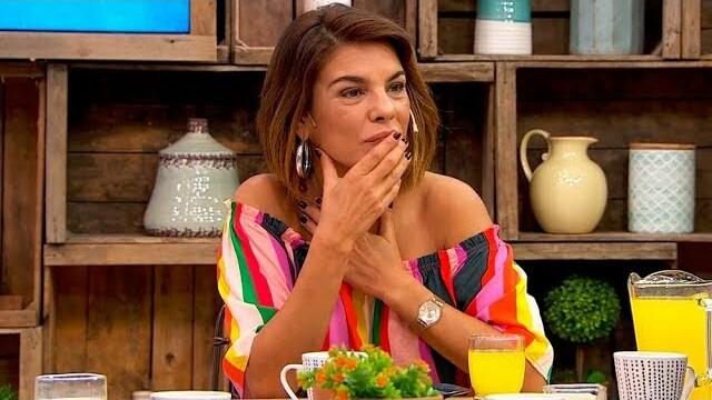 Victoria Rodriguez in 2019.